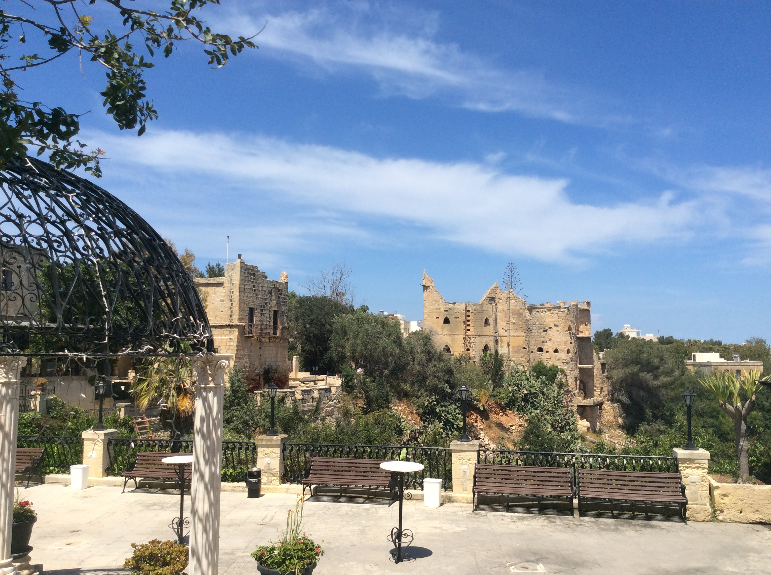 Torre Paolina